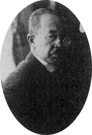 Mr. Hirotarō Nishida.